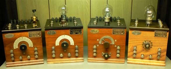 Radio Puzzle, probably first radio SBR.